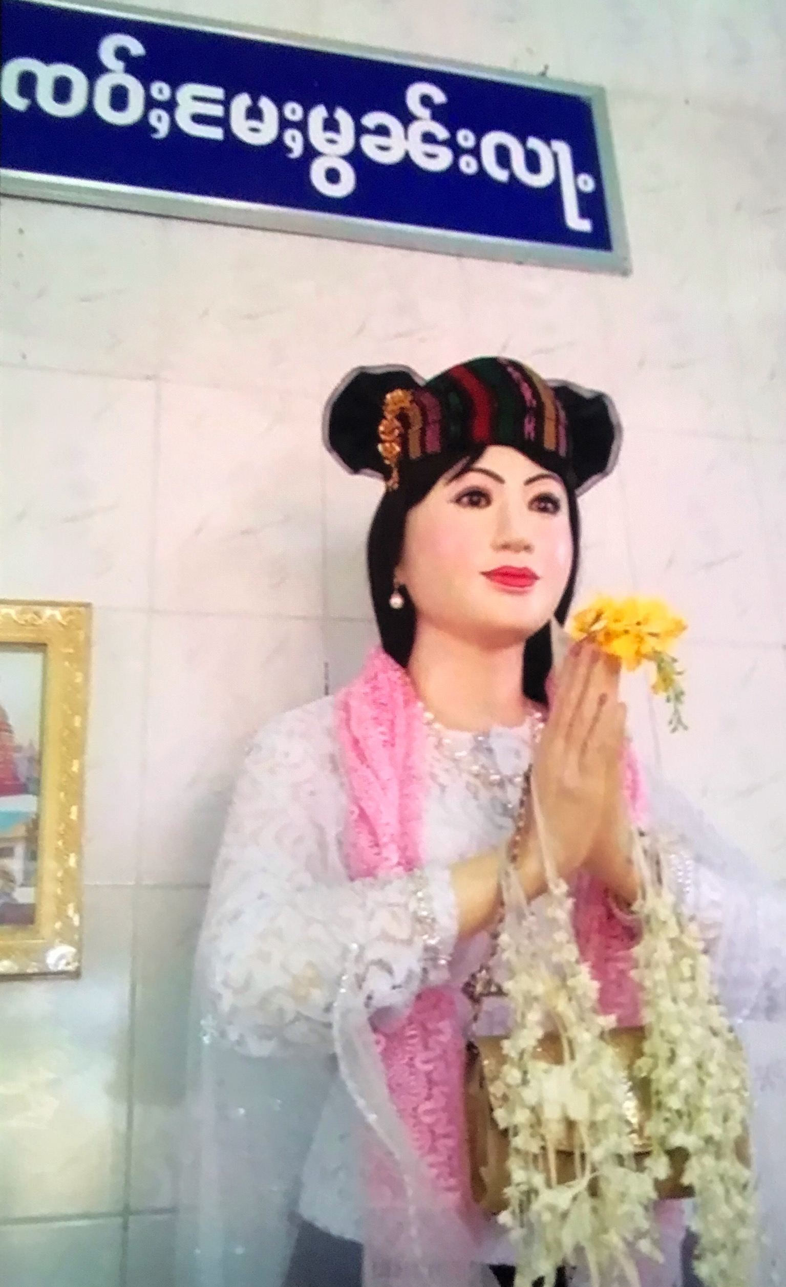 Queen Saw Mon Hla is the chief queen of King Anawrahta and one of the Bumese nat pantheon